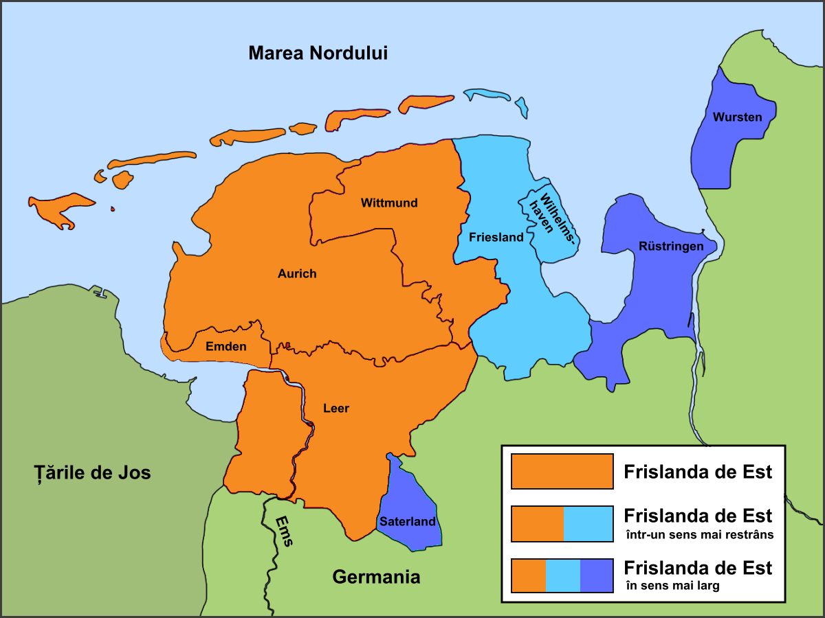 Map to show the difference between "East Frisia" and "Eastern Frisia".